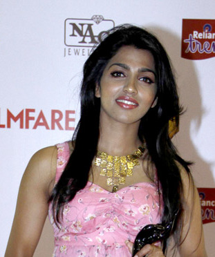 Dhansika at 61st flimfare Awards